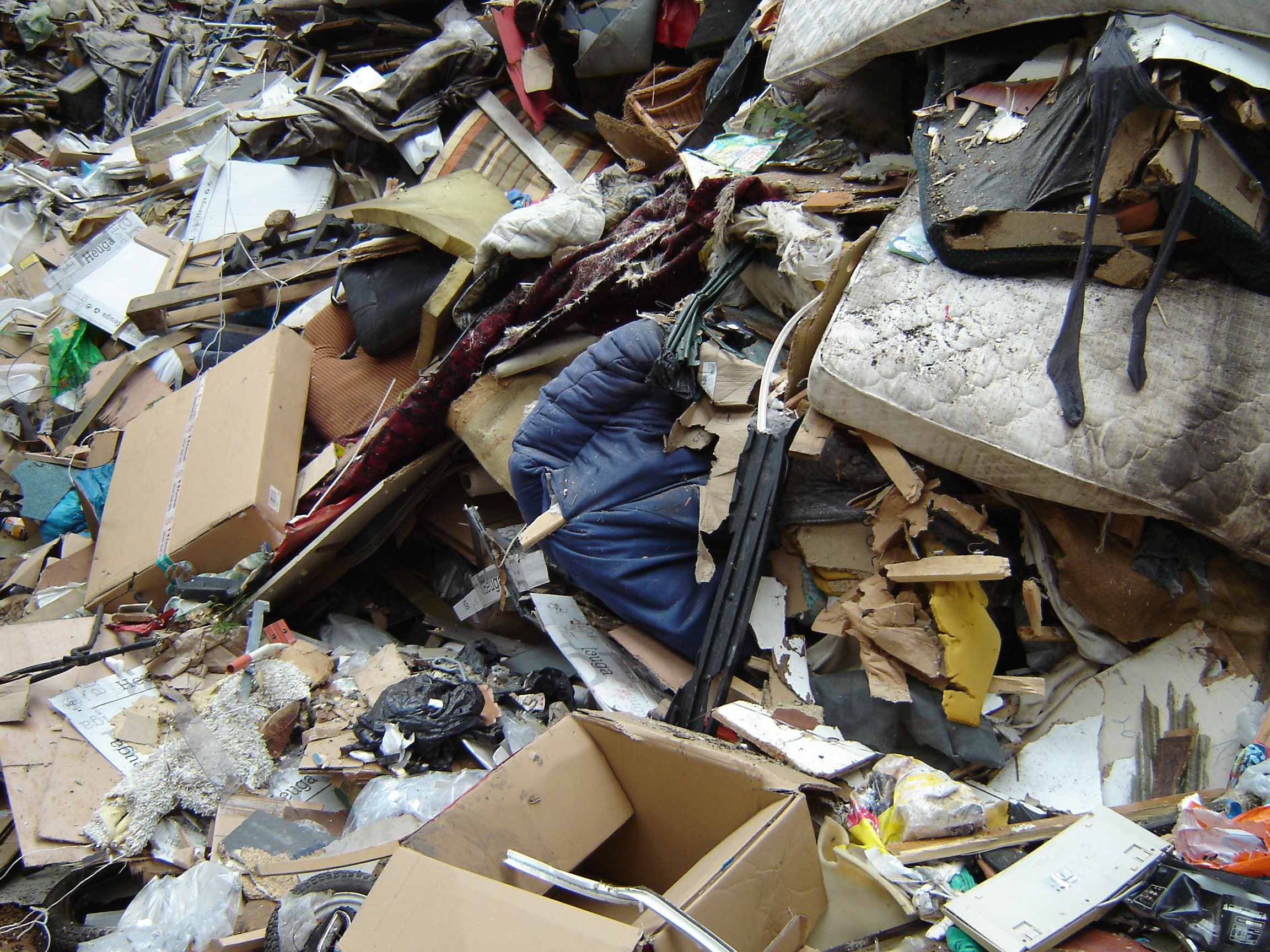 Example of commercial waste. Photo taken in Heiloo, The Netherlands.